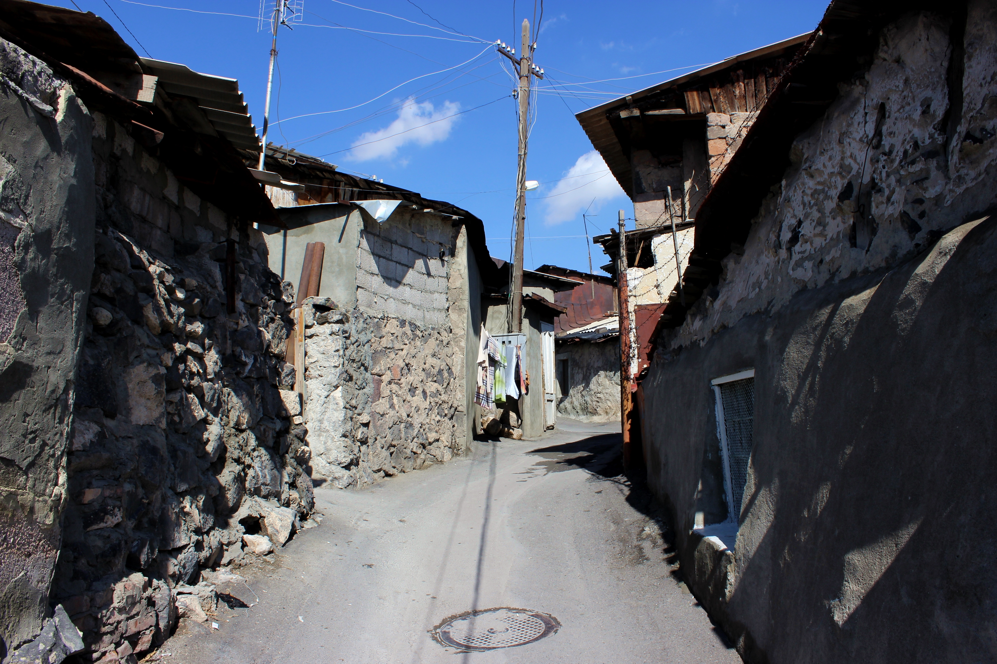 Old streets of Kond, Kentron District, Yerevan, Armenia.